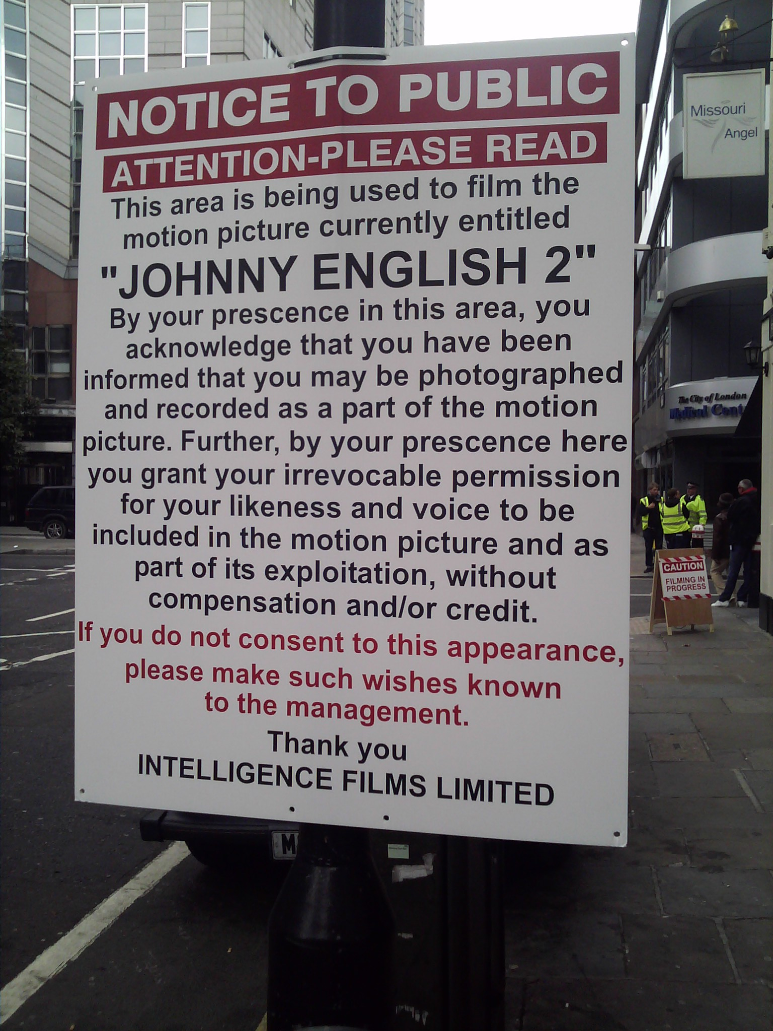 Notice Board for Johnny English 2 filming (Where exactly is this? Mtaylor848 (talk) 10:11, 12 September 2010 (UTC)) Vine St and Crossway EC3